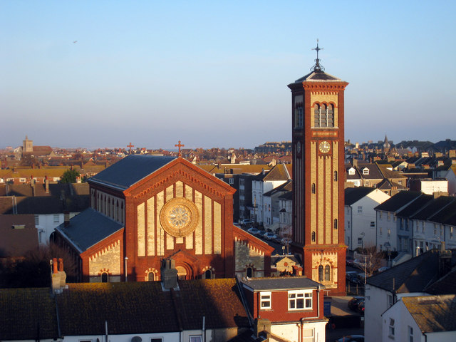 All Souls parish church, Susans Road, Eastbourne, East Sussex, seen from the west